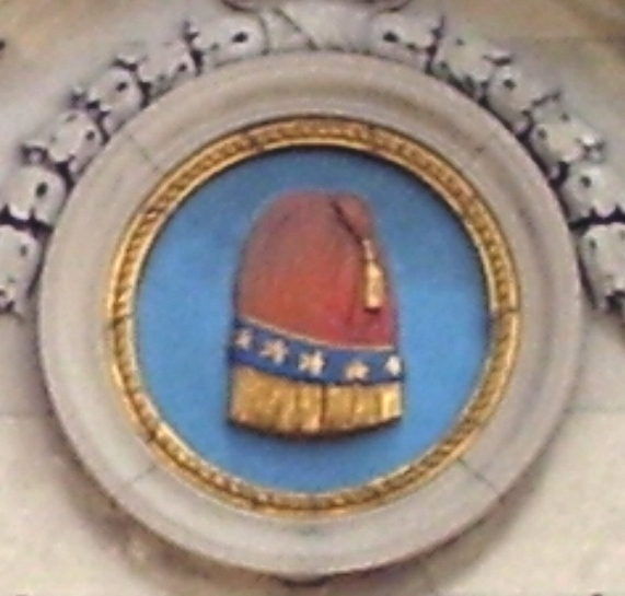 Close-up of the Tammany emblem on the Tammany Hall Building at Park Avenue South and 17th Street, Manhattan, New York City.